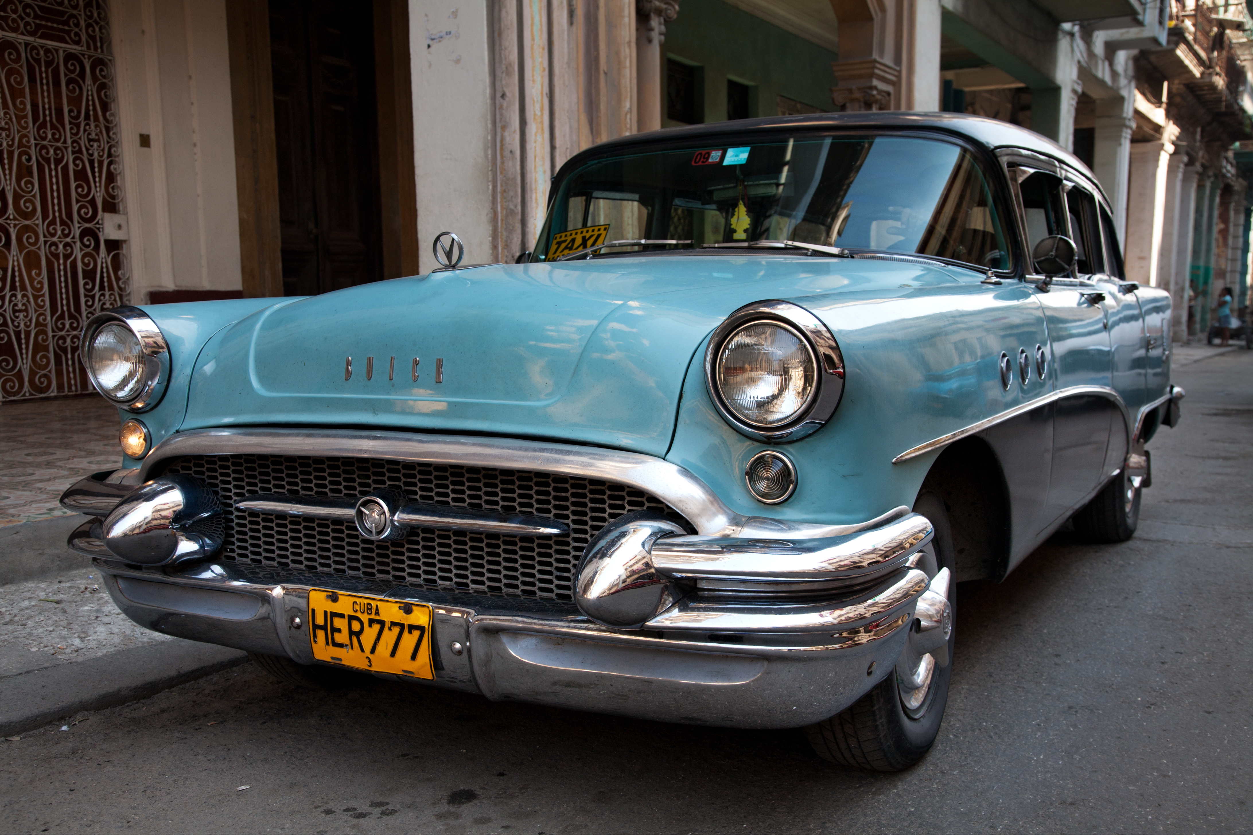 Vintage Buick. Havana (La Habana), Cuba